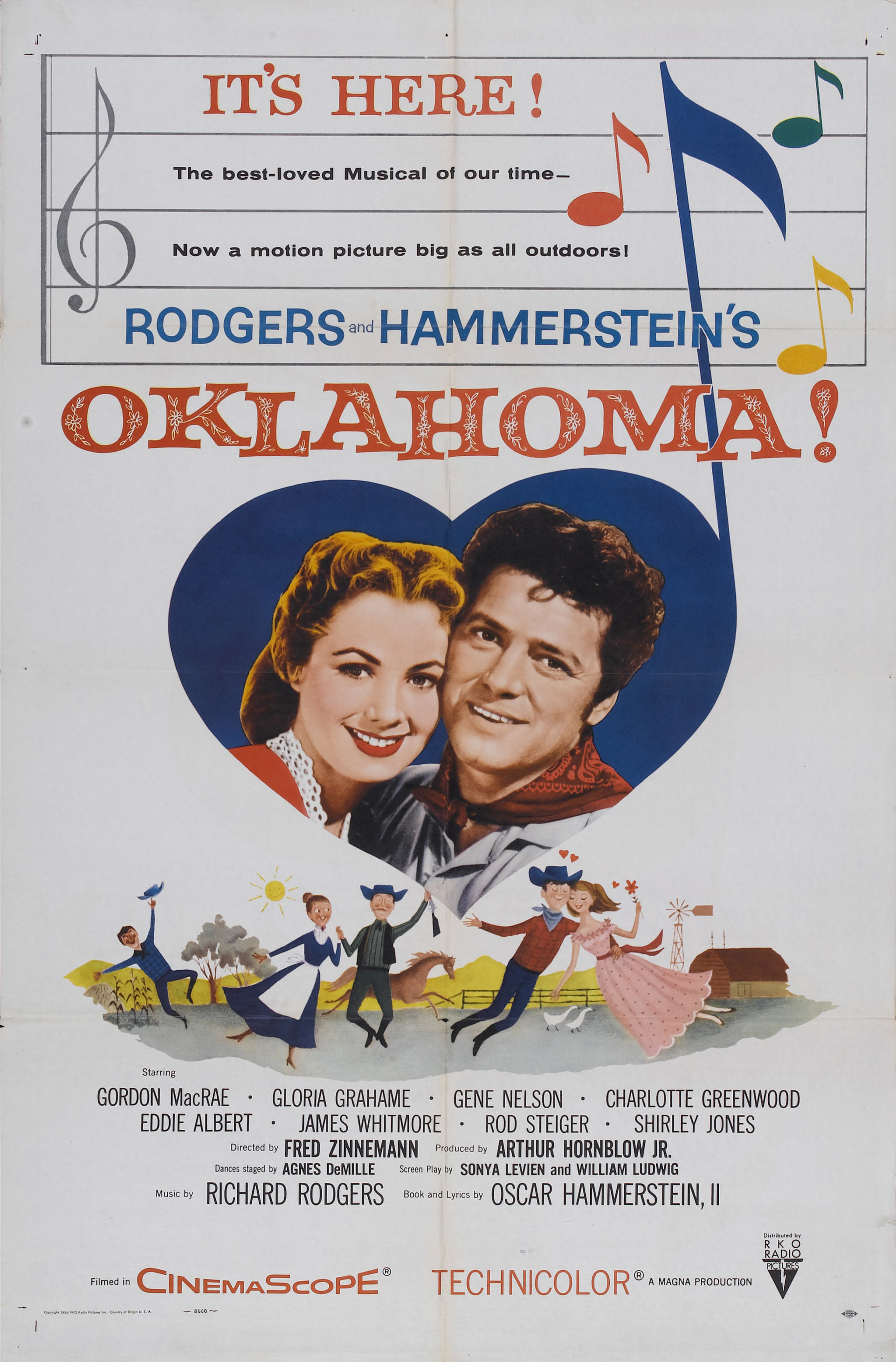 Poster for the American theatrical run of the 1955 film Oklahoma!, based on the musical of the same name.